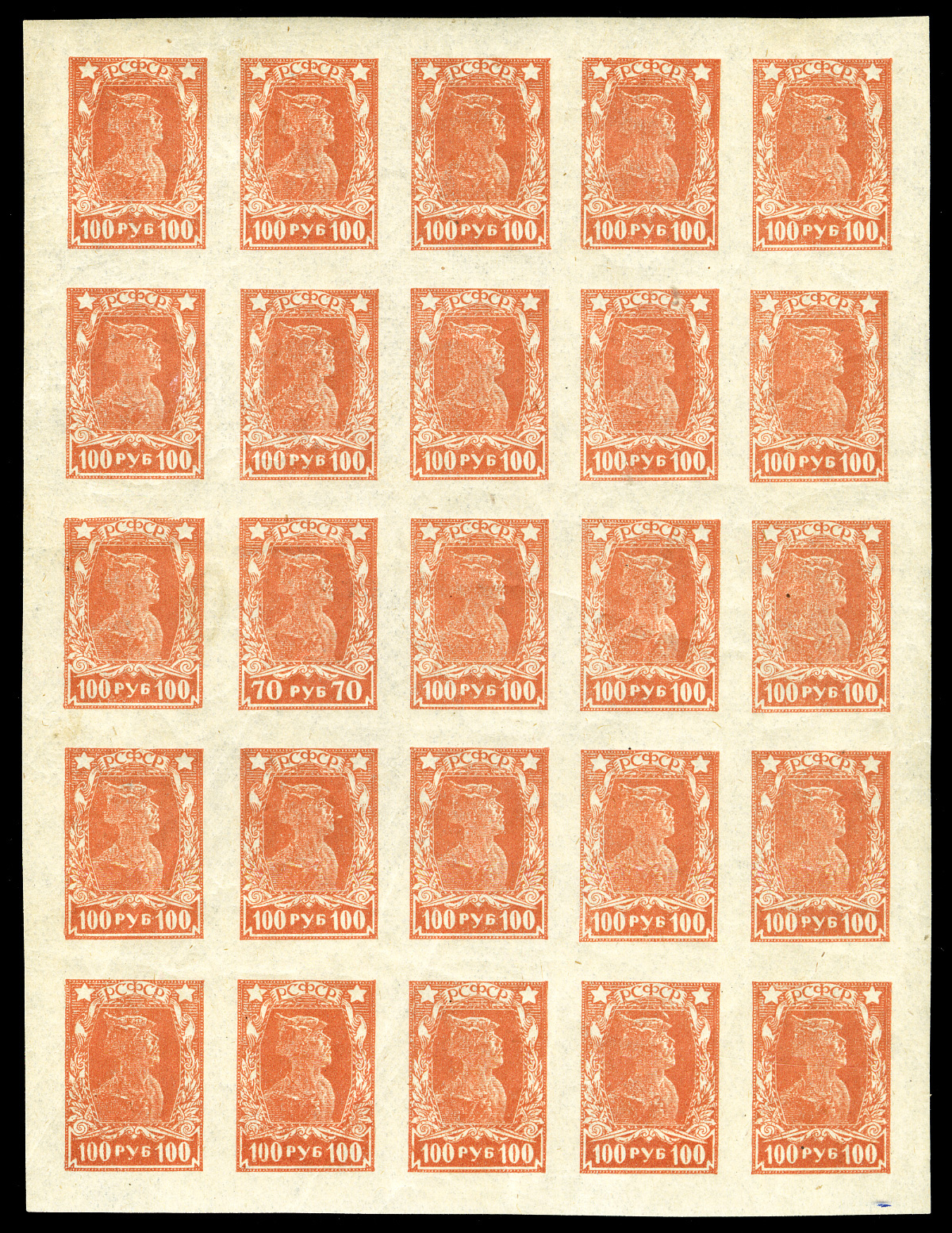 Sheet of imperforate stamps of Soviet Russia (100 rubles), Red Army Soldier with one of the rarest Russian stamp (Sc #237a, 70 rubles, only 4 specimens known), 1922.